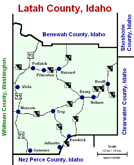 Map of Latah County — in northern Idaho. With cities and towns, and state and federal roads marked No scale listed Credits Robbie Giles Category:Idaho maps Category:Latah County